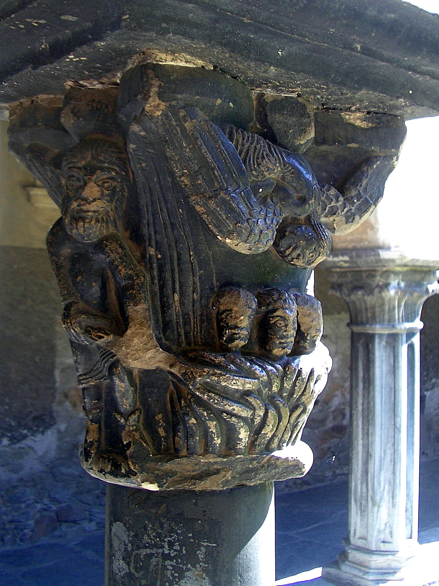 Aosta, cloister of "Collegiata di Sant'Orso", XII century, romanesque capital with the scene of Shadrach, Meshach and Abednego put into a blazing furnace (Daniel 3)